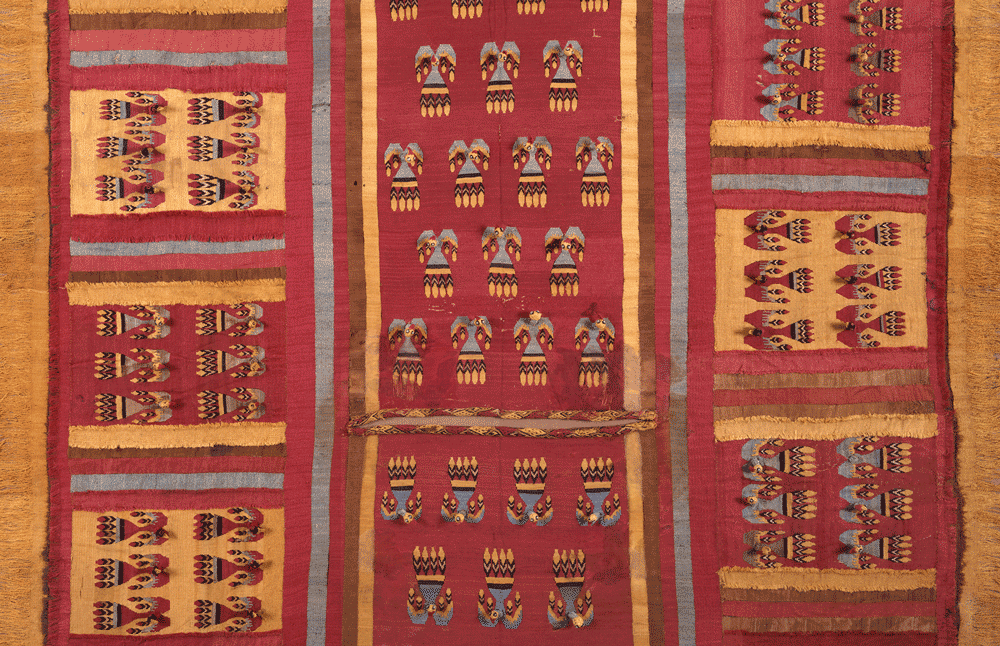 Sleeved Tunic with Flying Condors (detail), Chancay culture, Central Coast, A.D. 1200–1400. Plain warp and weft tapestry weave with looped stitching; cotton and camelid wool, 52 1/4 × 48 3/8 × 2 1/4 in. (132.7 × 122.9 × 5.7 cm). Private collection, exhibited at Yale University Art Gallery 2016.